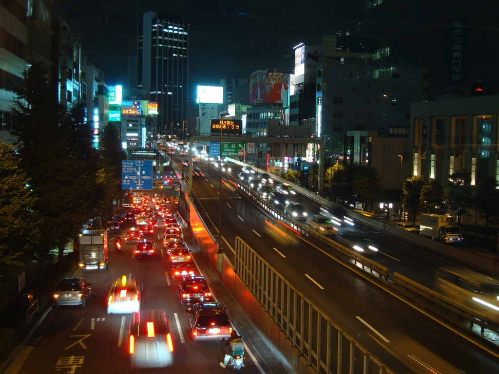 Route 3 (Shibuya Route) of Shuto-Kosoku, or Metropolitan Expressway (elevated tracks) along with Route 246, or Tamagawa-dori Avenue, near Shibuya district, Tokyo